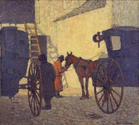 Robert Bevan (1865-1925). THE CABYARD, NIGHT, c.1909-10 Signed: Robert Bevan, blue paint, lower right, Oil on canvas, 63.5 x 70cm. Retrieved from